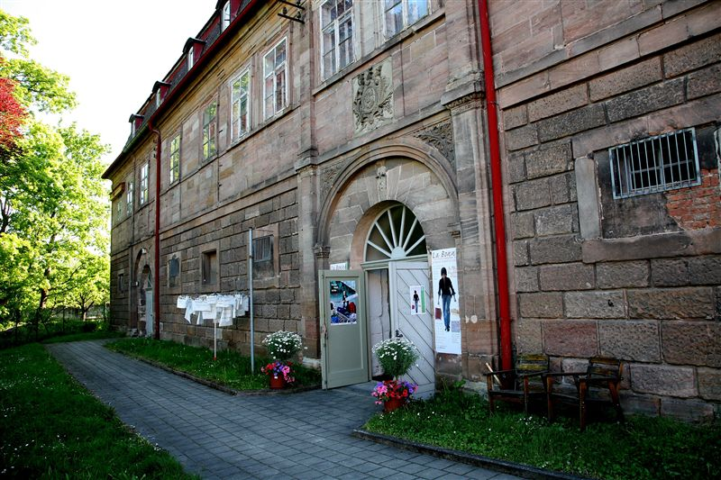 Part of the Castle of Burgfarrnbach (near Nuremberg), home of the Museum of Women's Culture